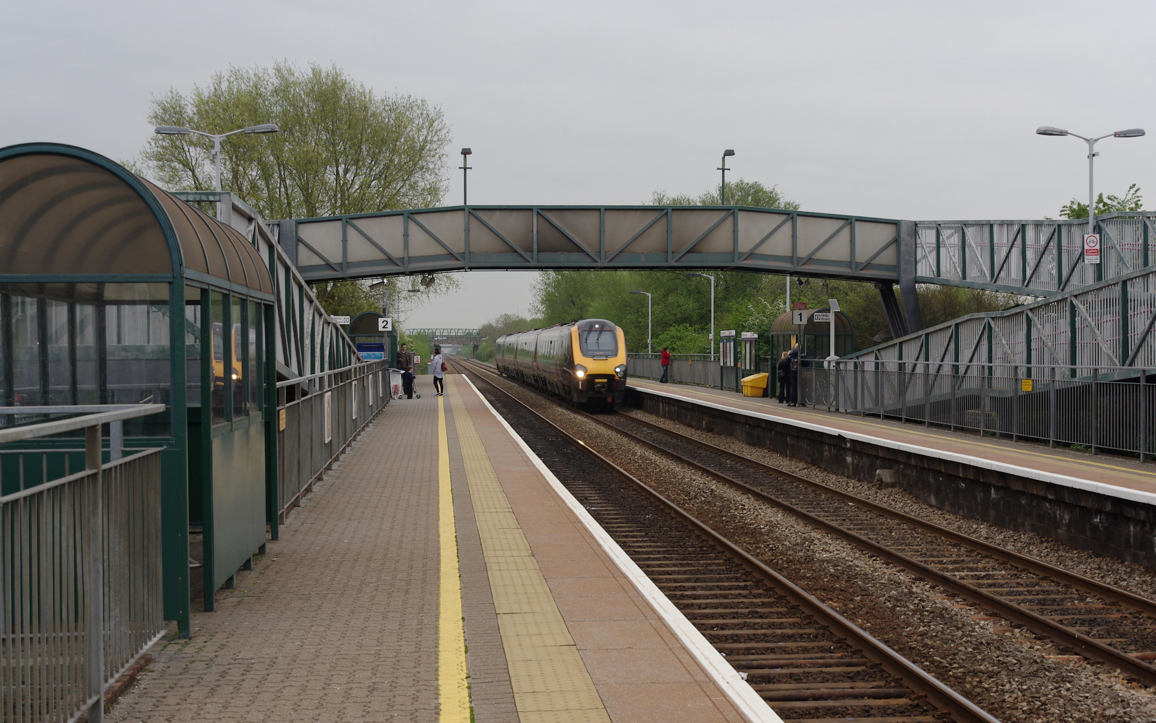 CrossCountry class 220 "Voyager" DEMU 220034 speeds west through Worle railway station.